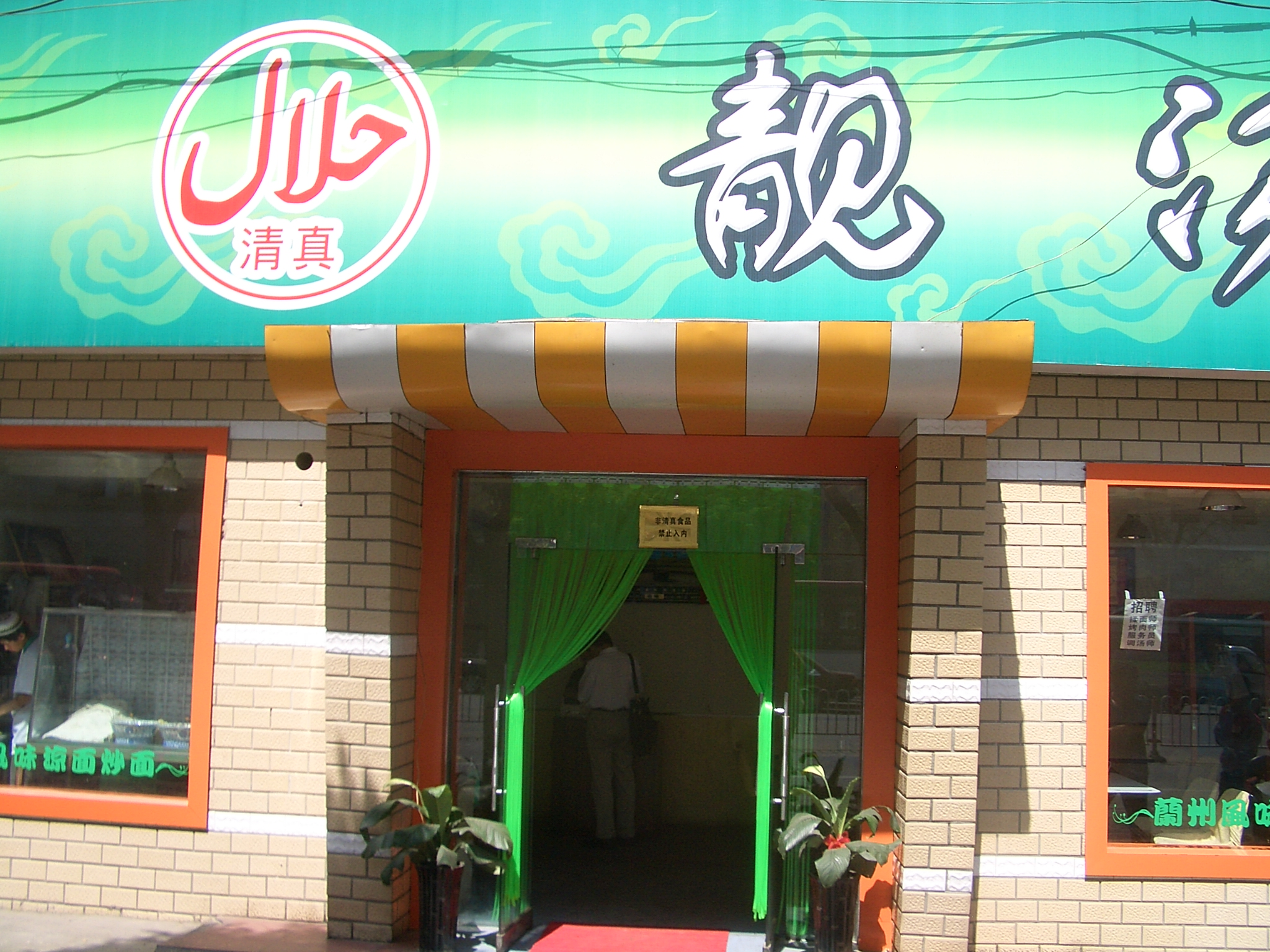 A halal noodle shop in Lanzhou. The small sign above the doors says that its prohibited to introduce non-halal food on the premises.